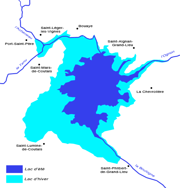 Map of lac de Grand-Lieu ; This lake is located in west of France, at about ten kilometers south of Loire. It occupies a basin of low altitude and low depth. It is therefore only low water level (1.60m of water on average in summer, and about 4m max. In winter). Its size doubles in winter (from about 35 sq km in summer to 65 sq km in winter), which explains important ecological characteristics. The lake supports floating forests locally called levis, and it is ecologically highly inter-connected to the near marshes